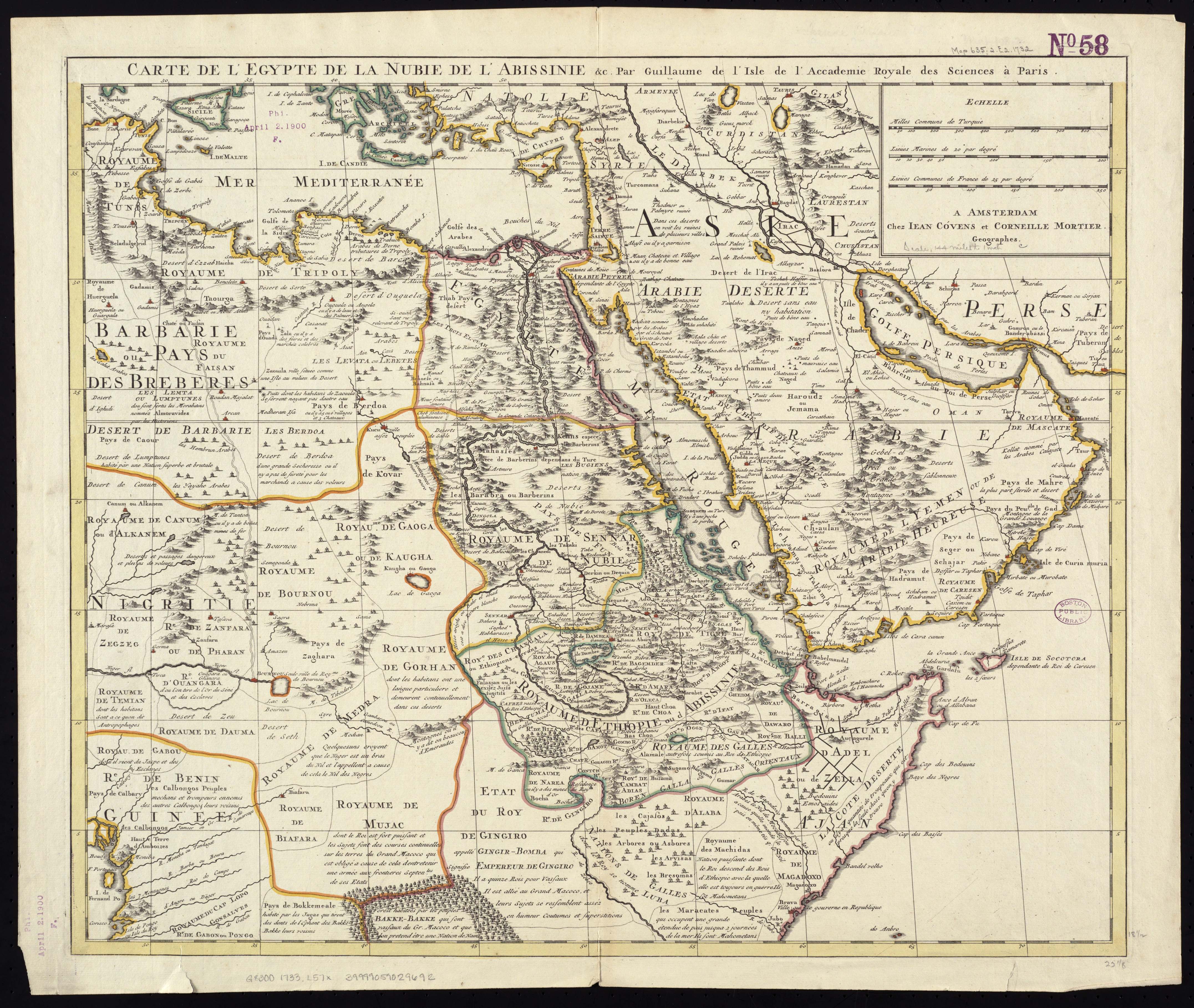 Zoom into this map at . Author: L'Isle, Guillaume de Publisher: Covens, Jean & Corneille Mortier Date: 1733 Location: Arabian Peninsula, Egypt, Ethiopa, Nubia Dimension 47 x 57 cm. Scale: ca. 1:9,300,000 Call Number: G8300 1733 .L57x